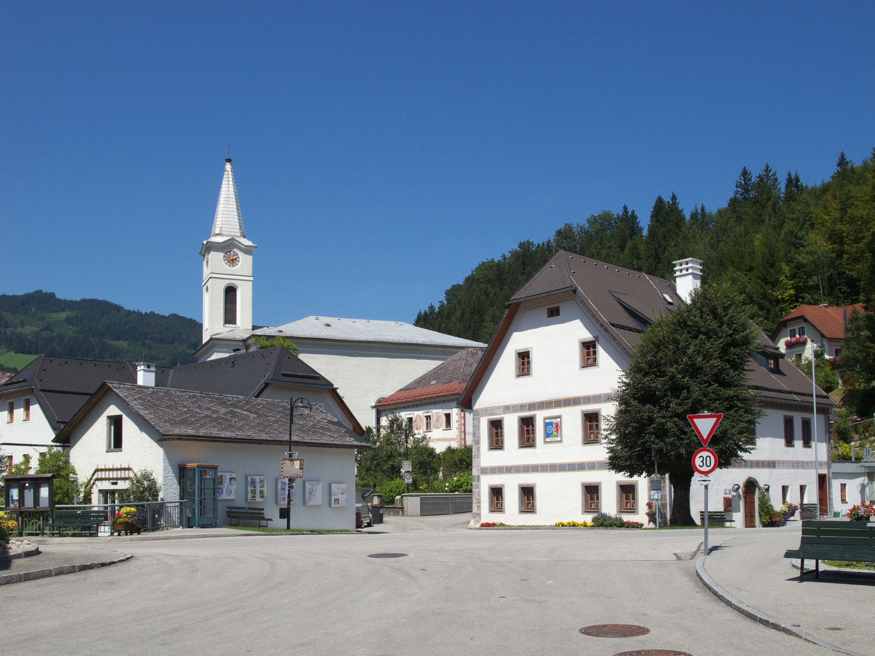 Center of Opponitz with church of Saint Kunigunde and municipal office.